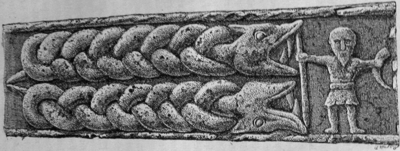 A part of the Gosforth Cross, showing some sort of double-monster and a humanoid figure with a spear and a horn. Finnur Jónsson interprets the monster as Fenrir and tentatively suggests Heimdallr for the other figure. The engraving is signed "Magnus P.".